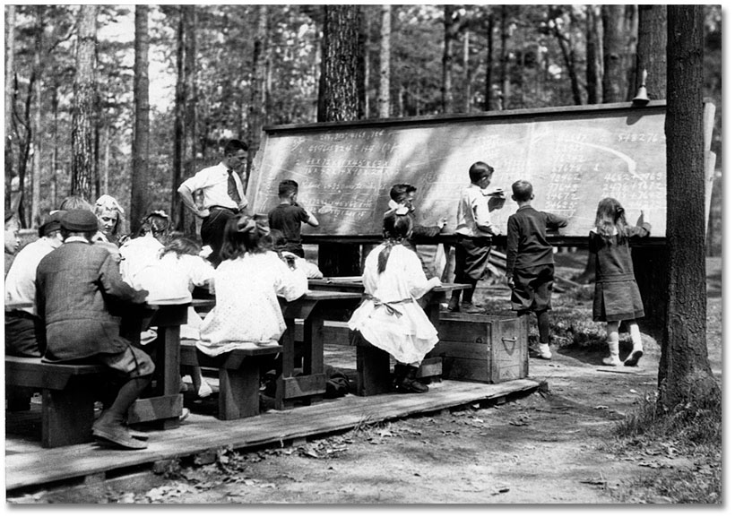 Mr. Brown's Class at Forestry School in 1917 This image is available from the City of Toronto Archives. This tag does not indicate the copyright status of the attached work. A normal copyright tag is still required. See Commons:Licensing for more information.